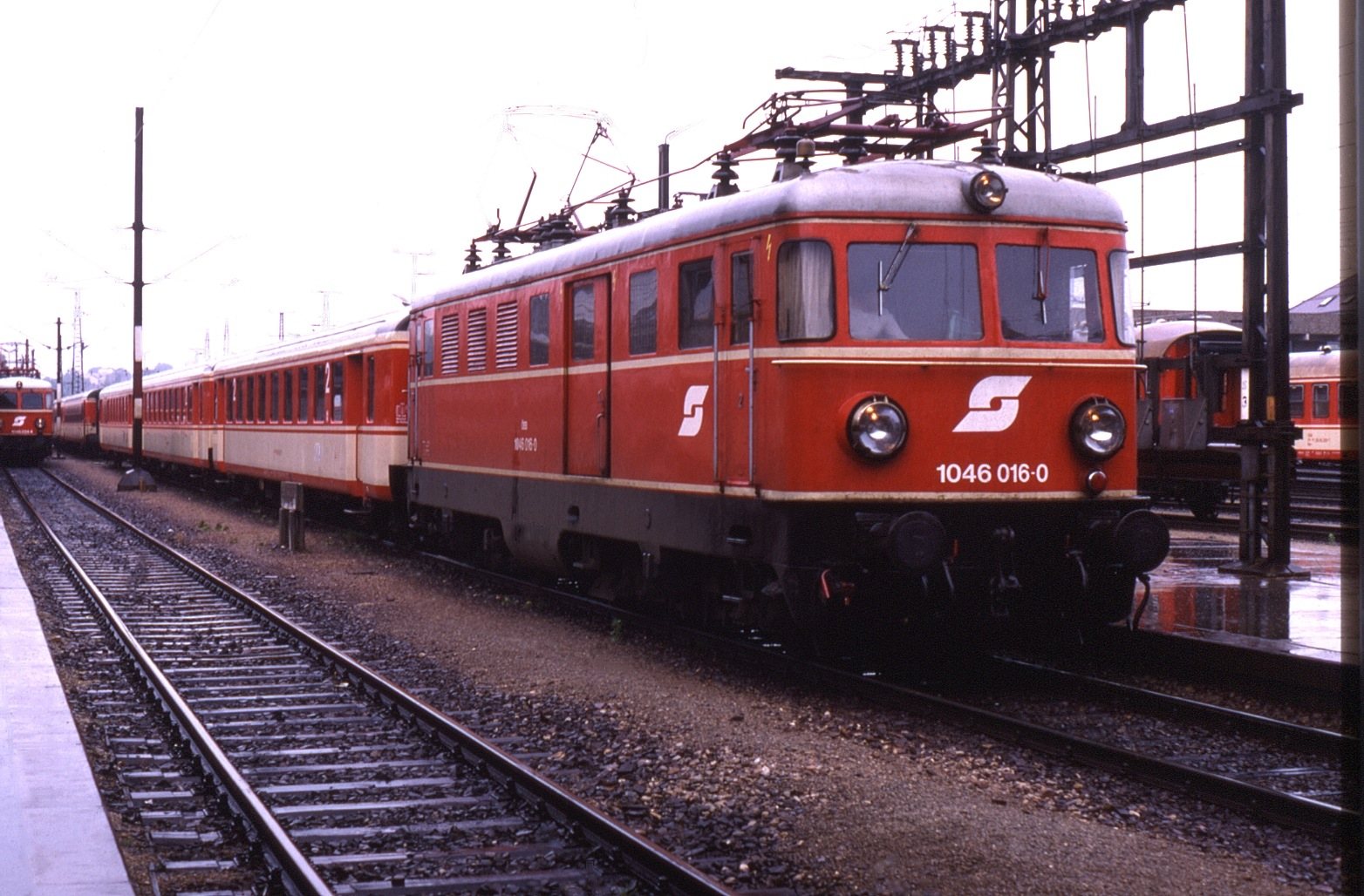 ÖBB 1046 016-0 with a regional train at St. Pölten Hauptbahnhof, on the left side another 1046 can be seen.